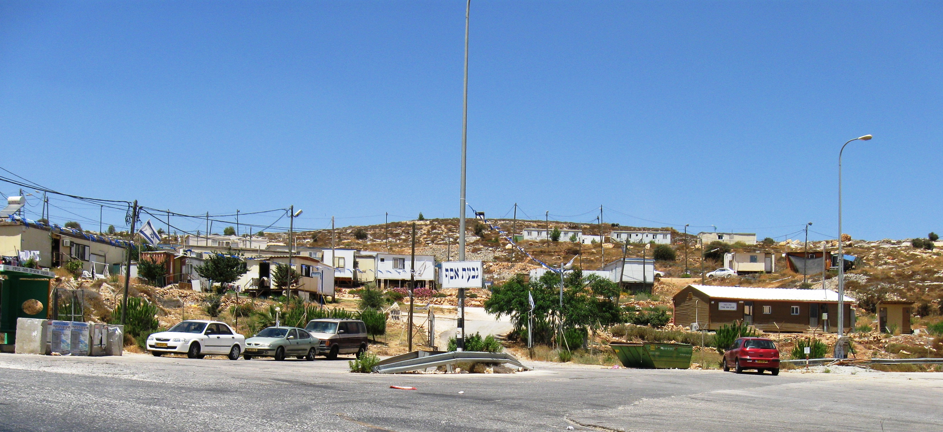 givat asaf.